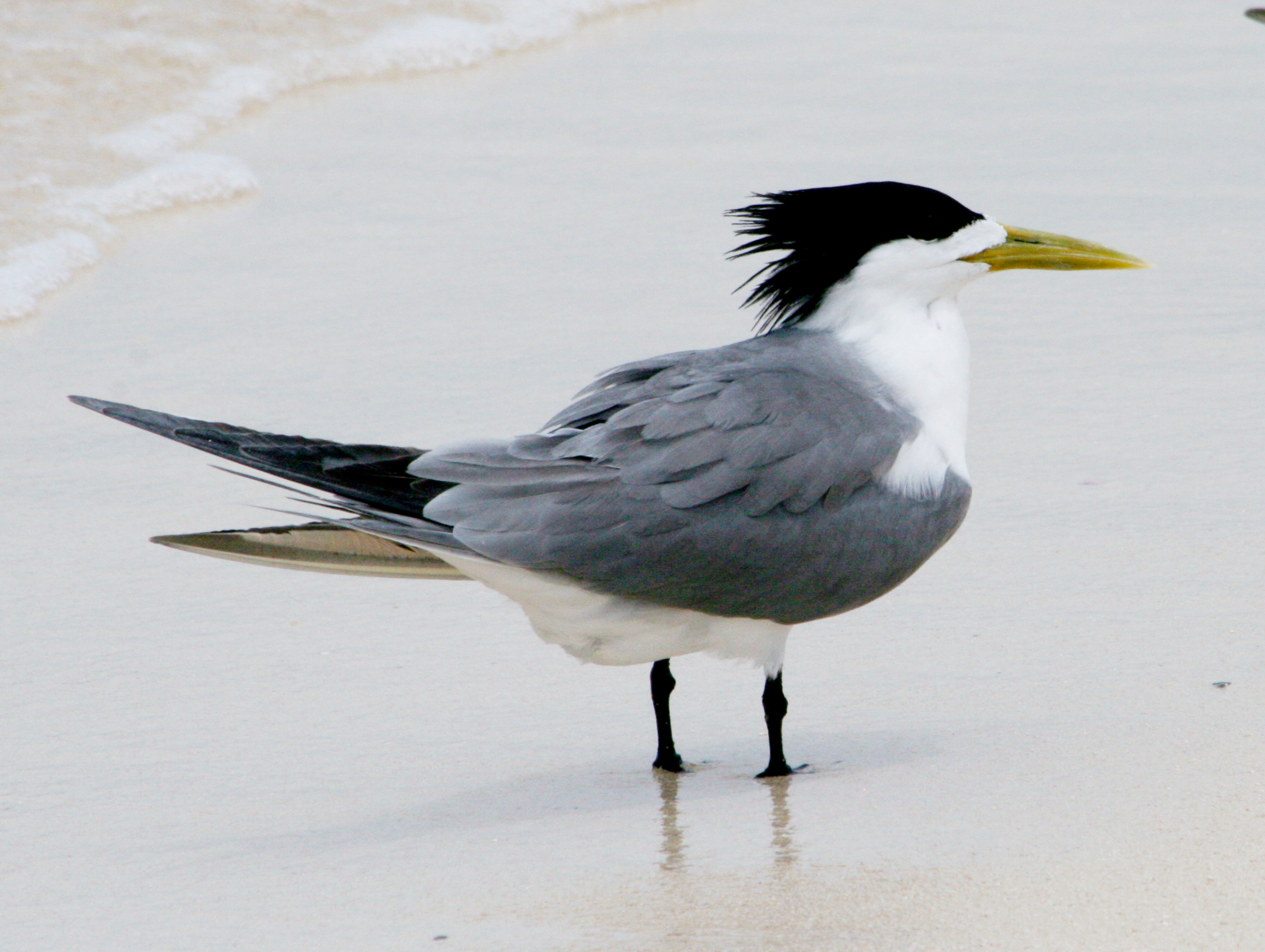 Greater Crested Tern (Thalasseus bergii) - Michaelmas Cay,the Great Barrier Reef, Australia